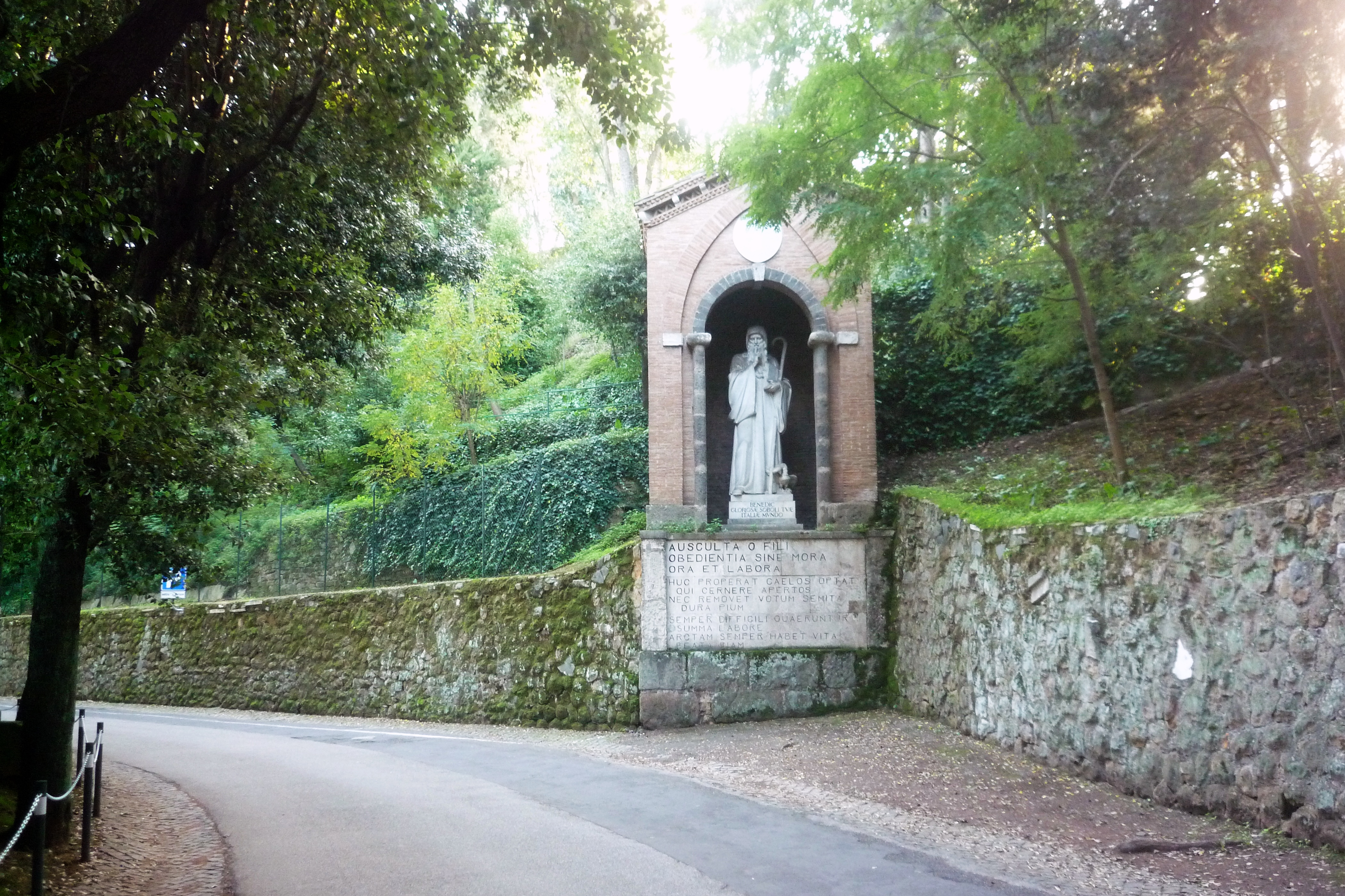 The "Tre Fontane" Abbey, Rome - Italy